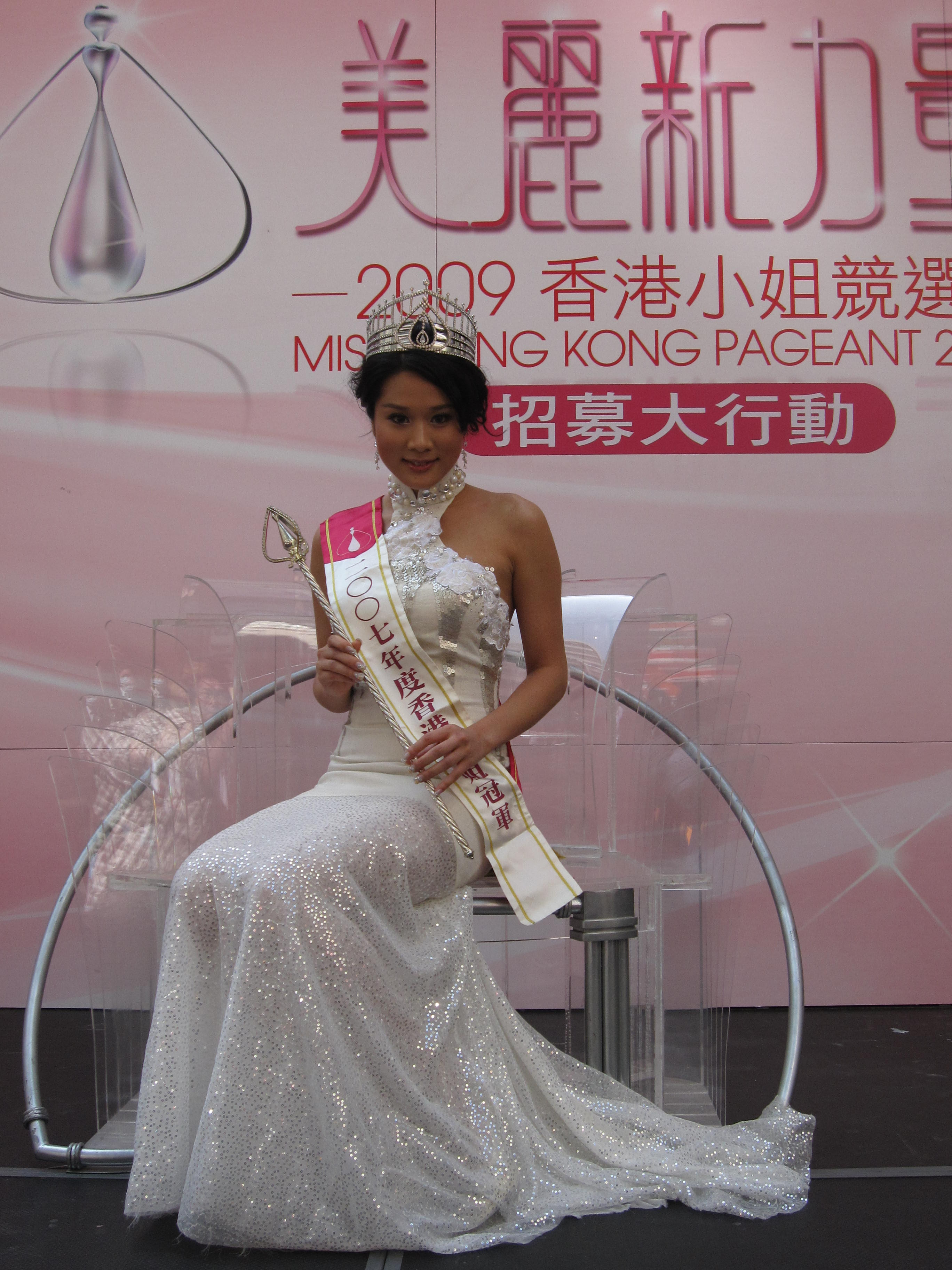 kayi crowning